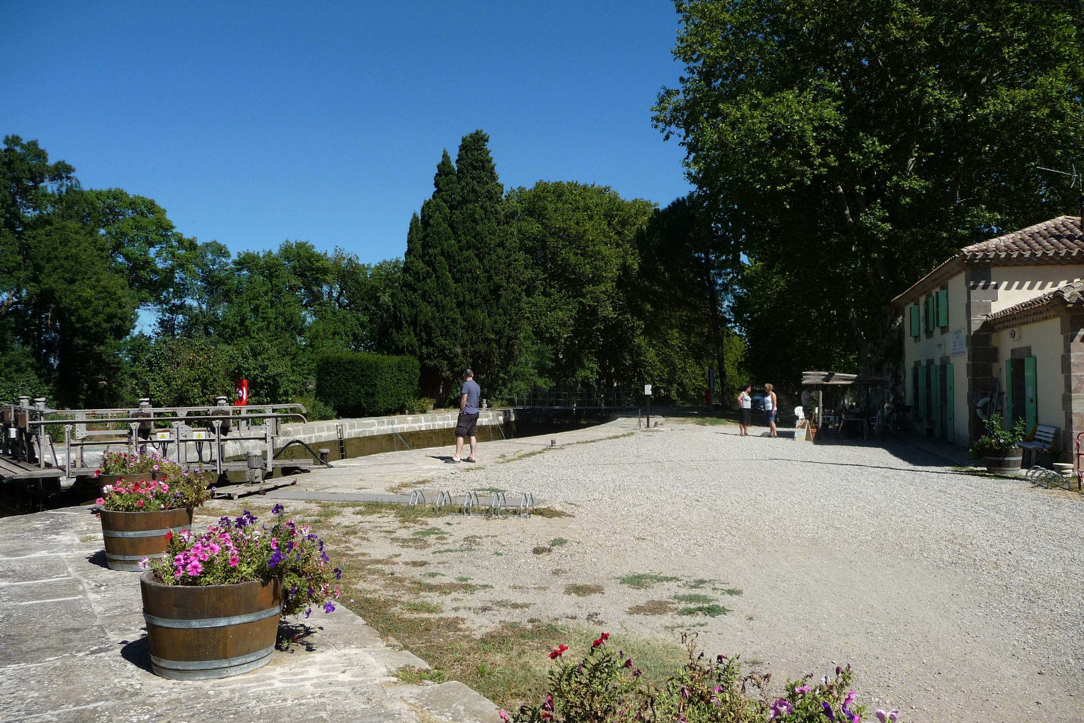 Jouarres Lock on the Canal du Midi - Azille (Aude)